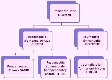 The is the Nov Fm organigram